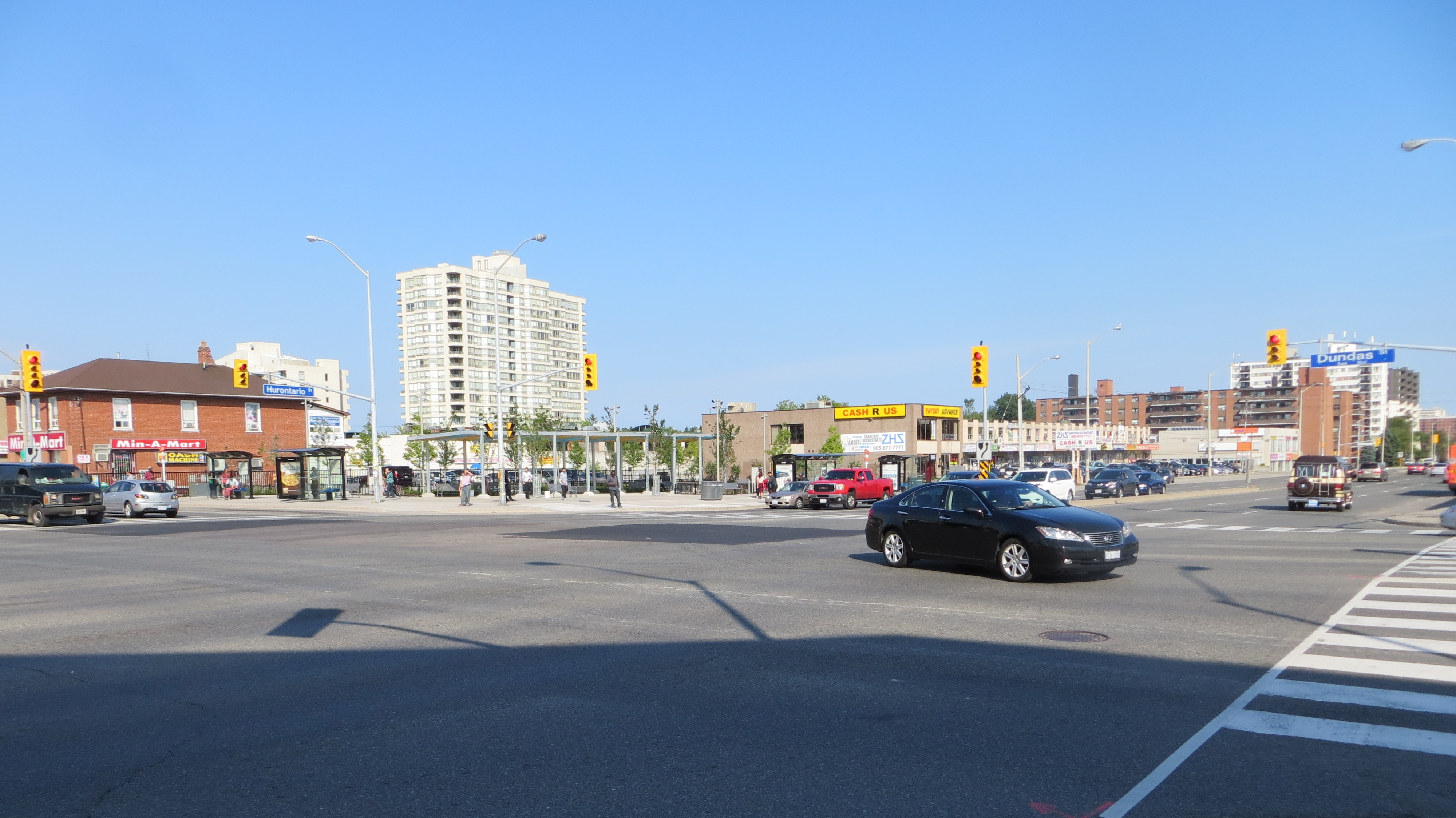 At the original corners of the community of Cooksville, Ontario, at Dundas Street and Hurontario Street, looking at the east corner